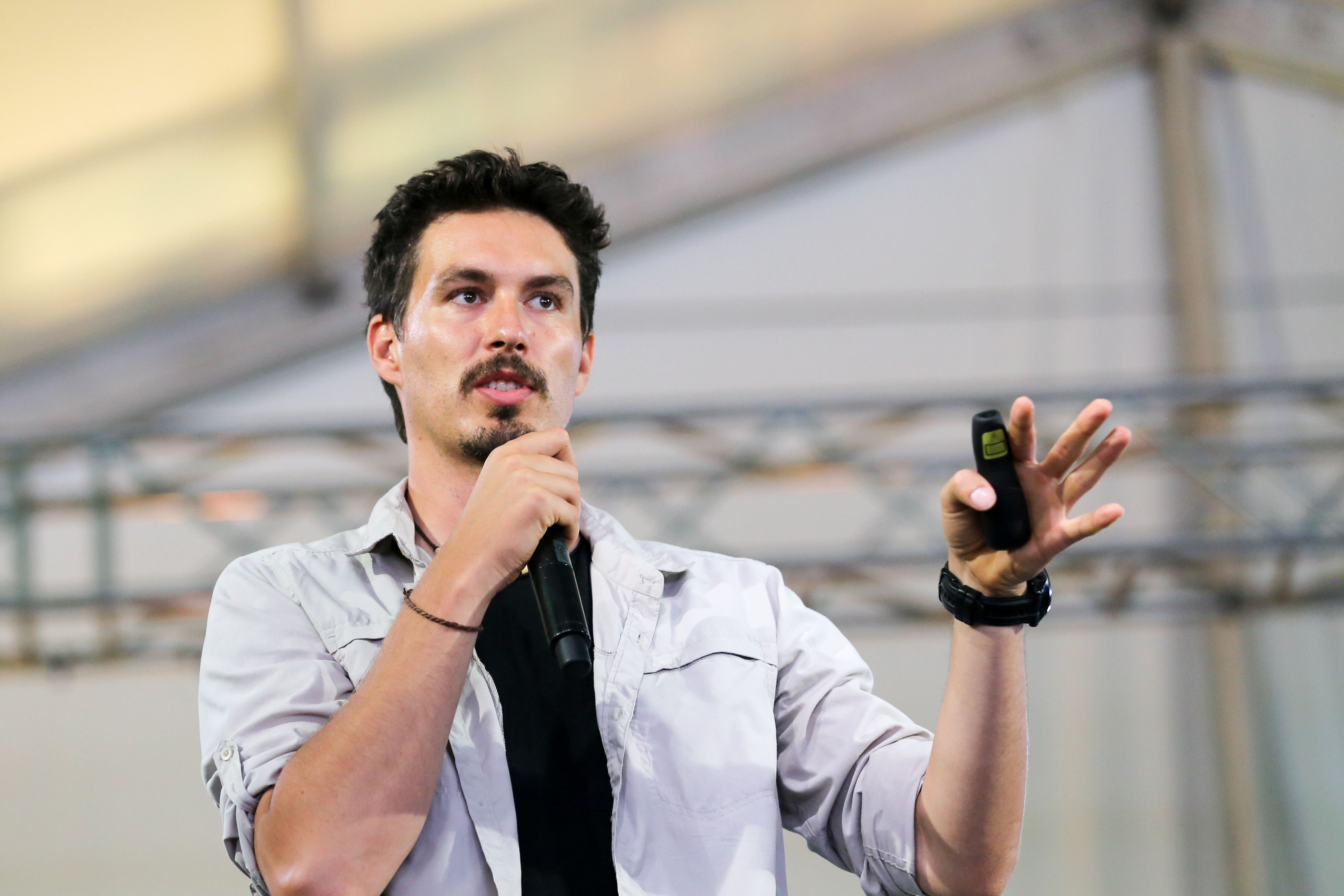 Przystanek Woodstock in 2017.